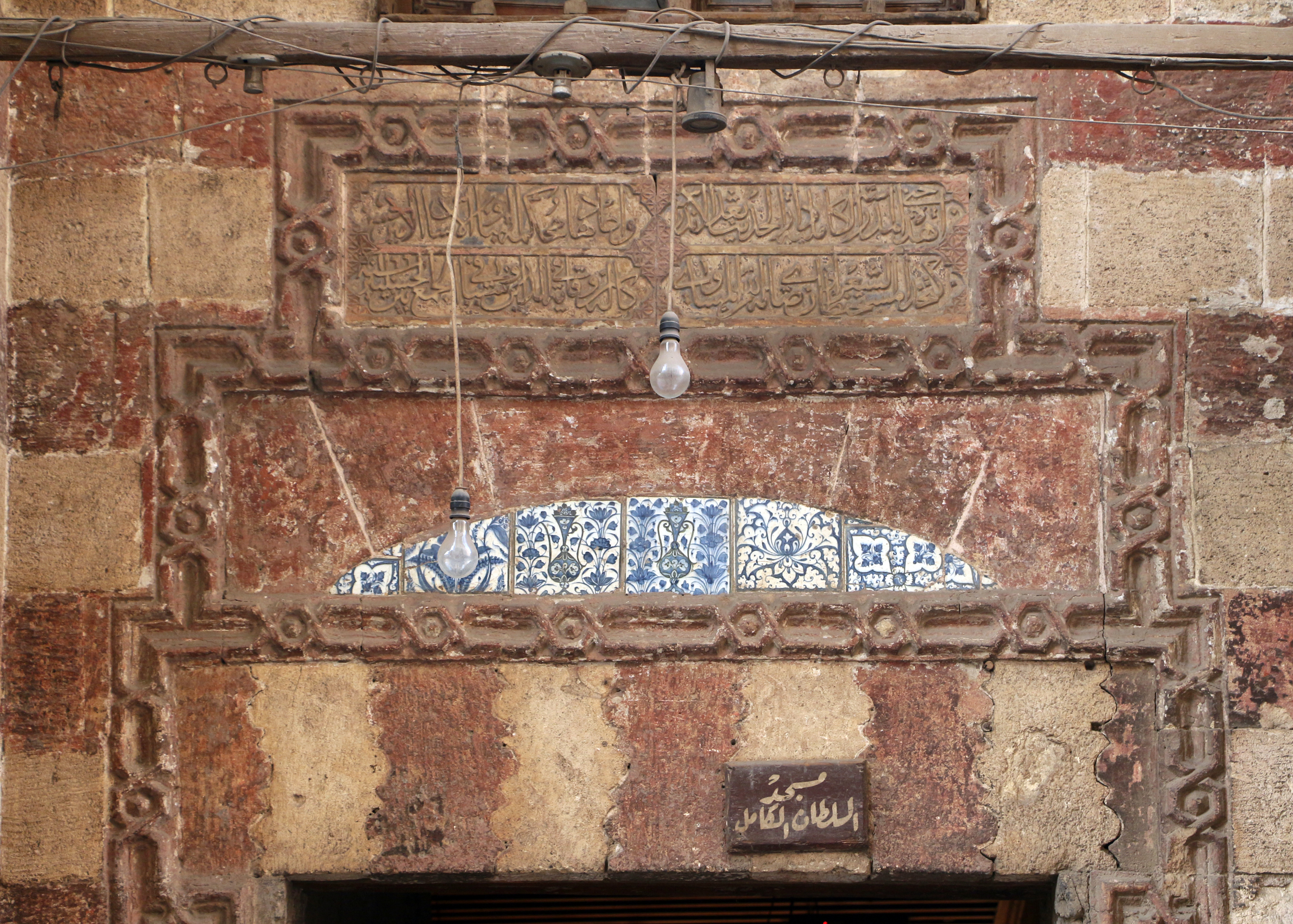 Madrasah Al Kamiliya